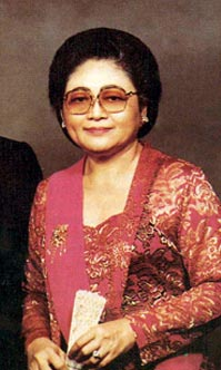 Former Indonesia First Lady Siti Hartinah in an official portrait during the 1990s.